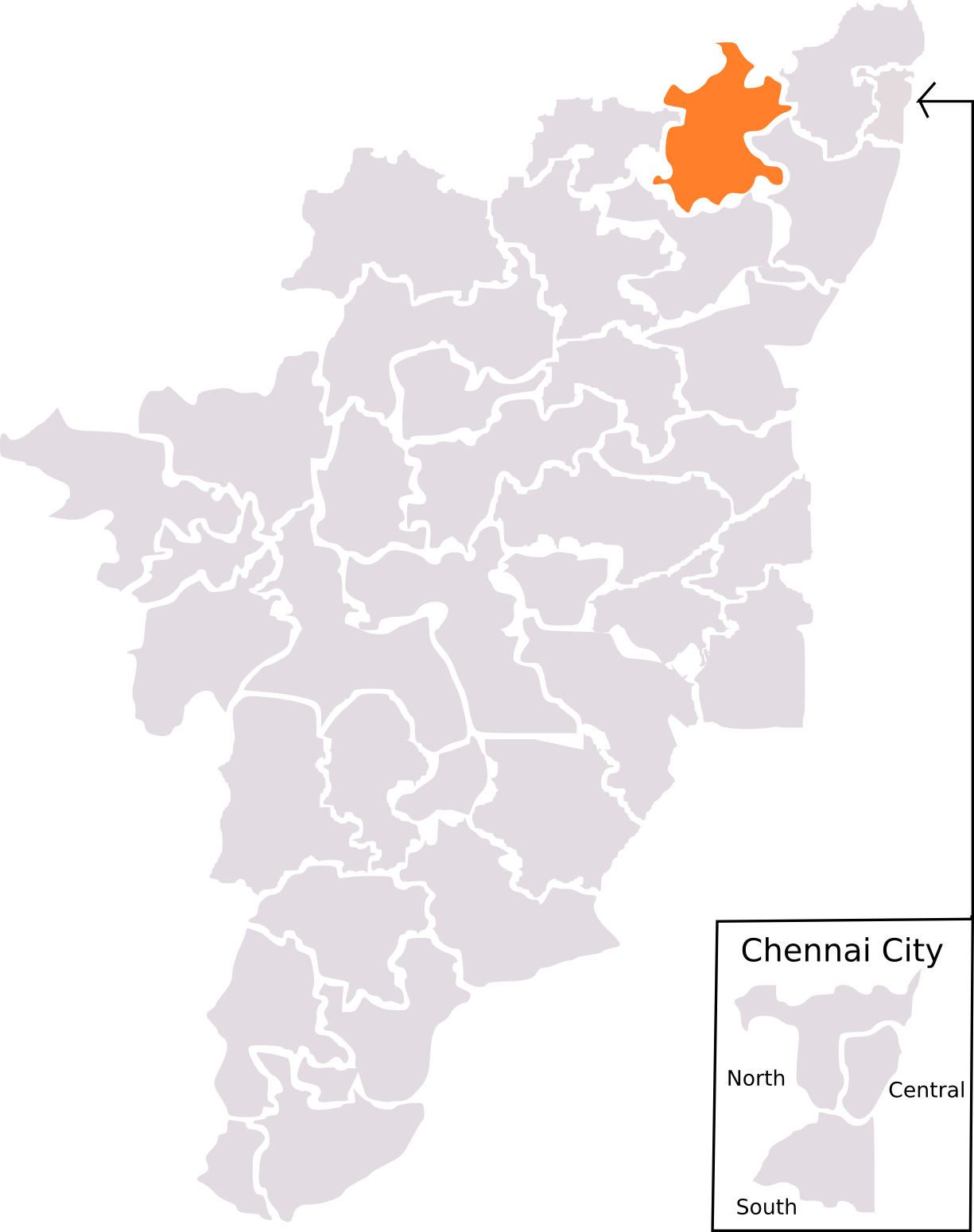 Lok Sabha Election map for Tamil Nadu that illustrates constituencies put in place by 1971 delimitation that was replaced in 2008. Map is based on ECI drawn map.